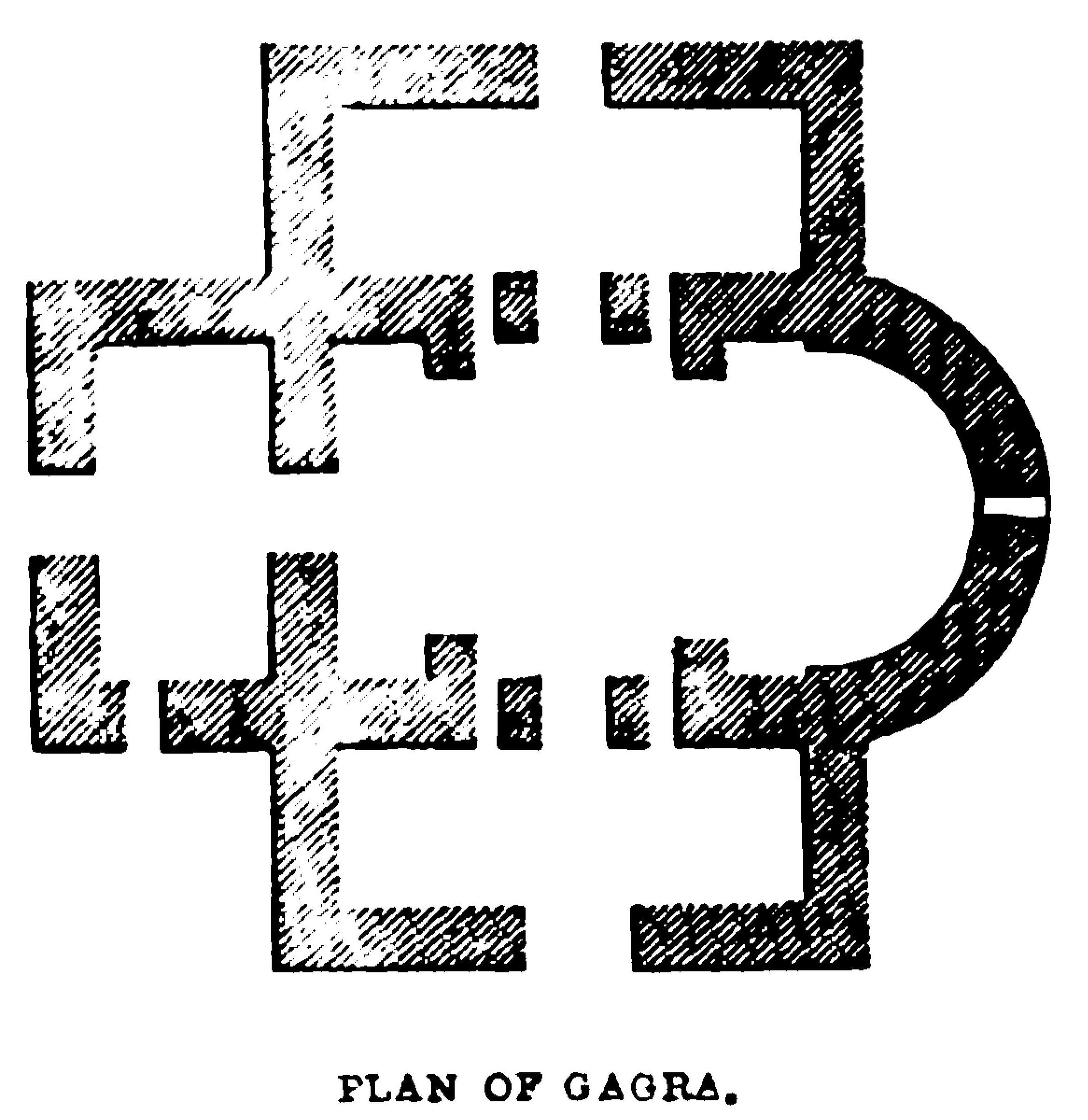 A history of the Holy Eastern Church: General introduction, Volume 1